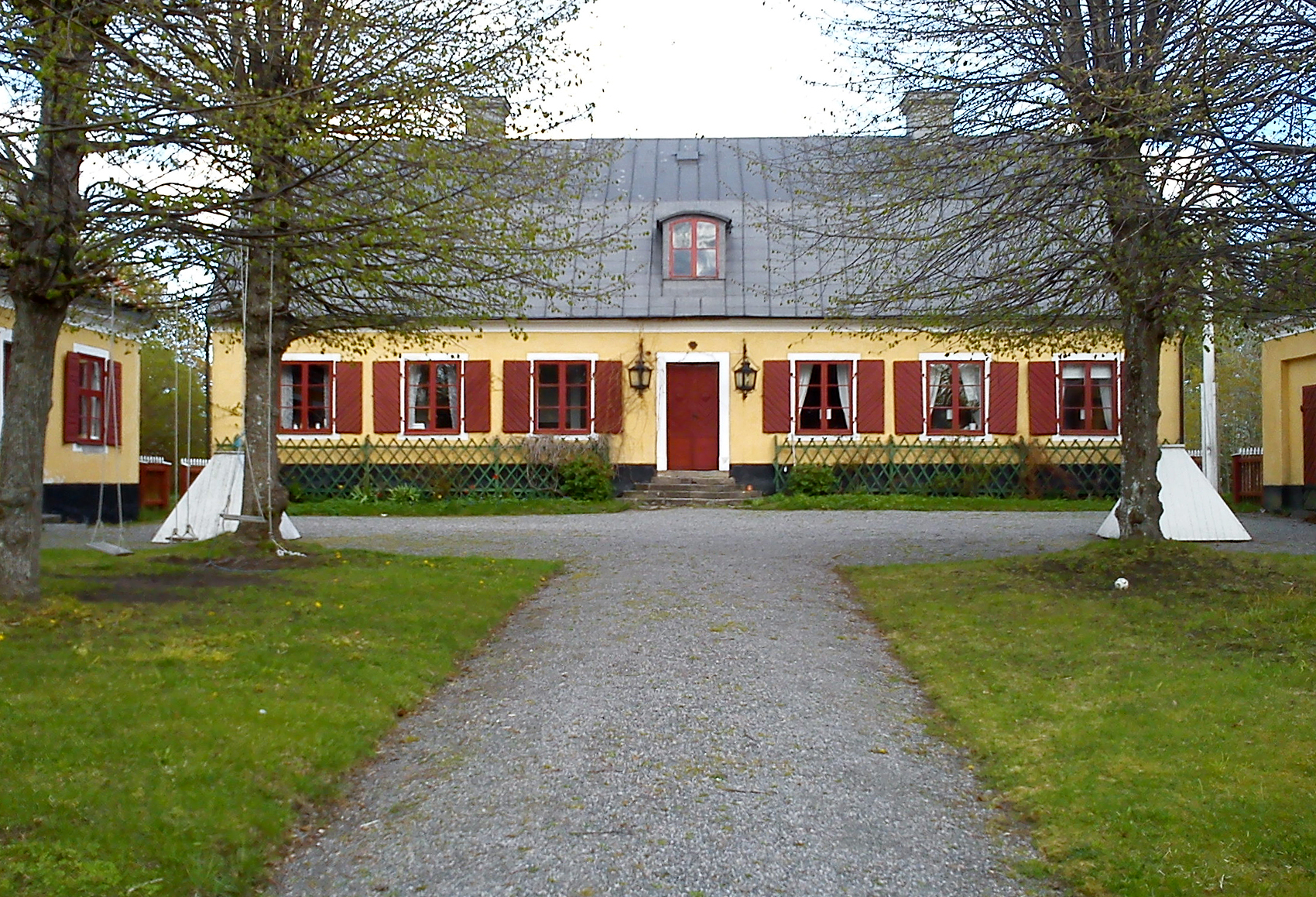 The old postoffice in Grisslehamn.